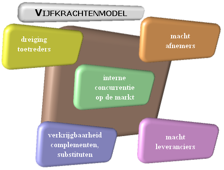 5 Forces Model of Michael Porter